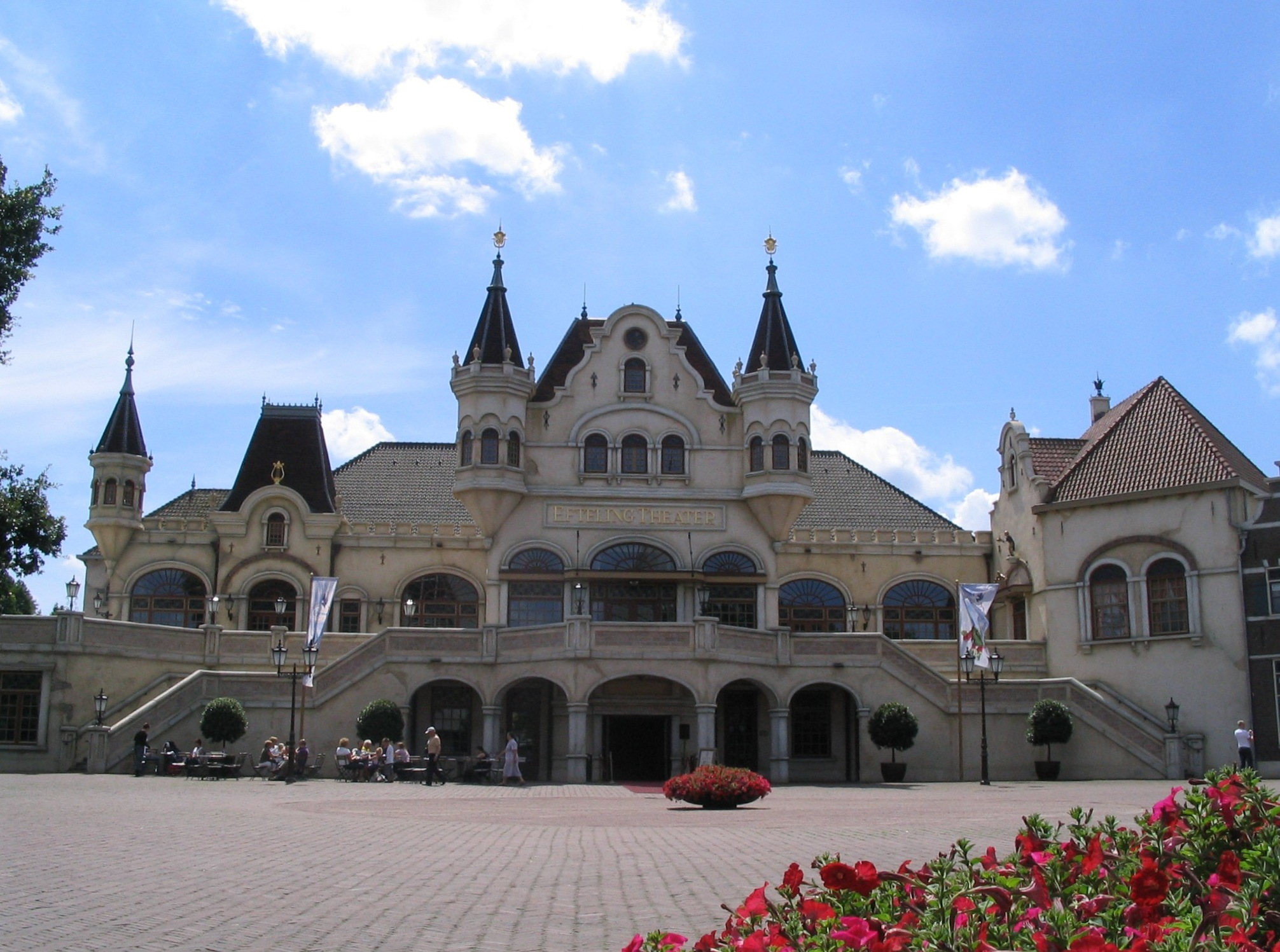 Frontview Theater de Efteling